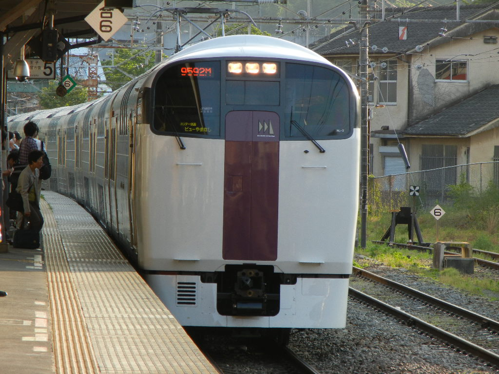 Holiday-Rapid-Train-View-Yamanashi. JR東日本で運行されている「ホリデー快速ビューやまなし」号, Yamanashi.